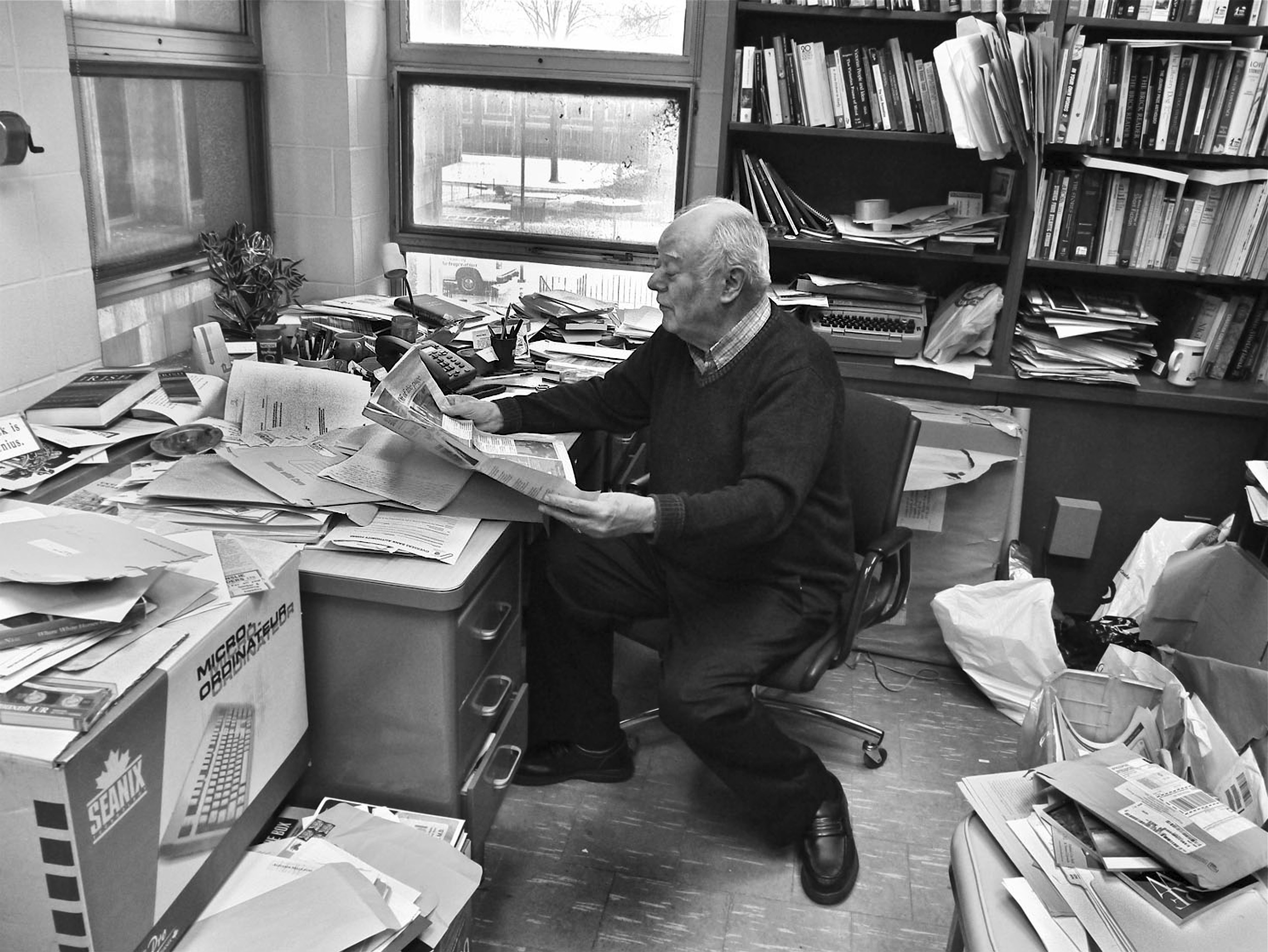 Canadian writer and English professor Alistair MacLeod in his office at the University of Windsor